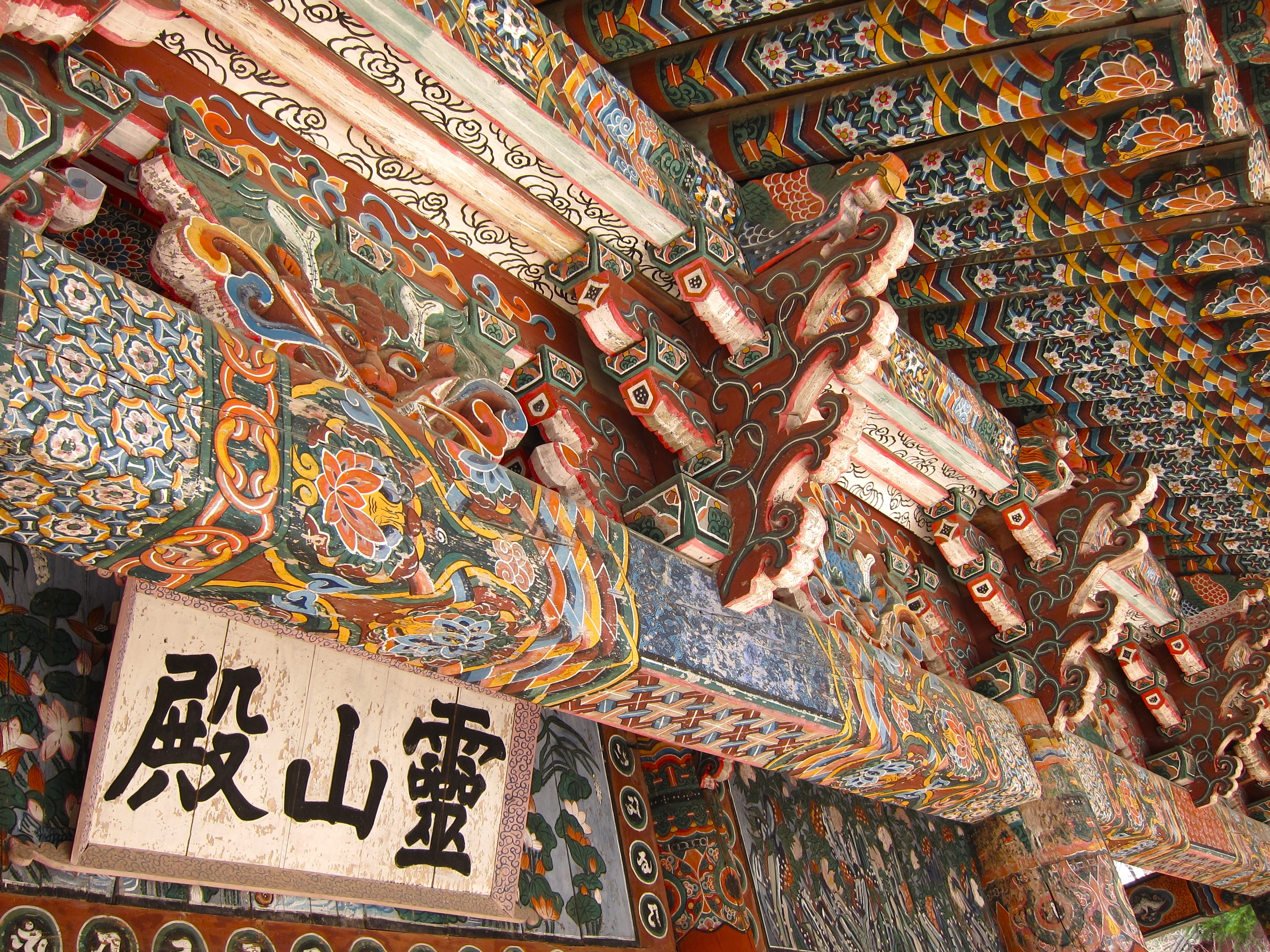 Dancheong (traditional painted eaves) at Pohyon Temple; Myohyangsan, DPRK (North Korea)